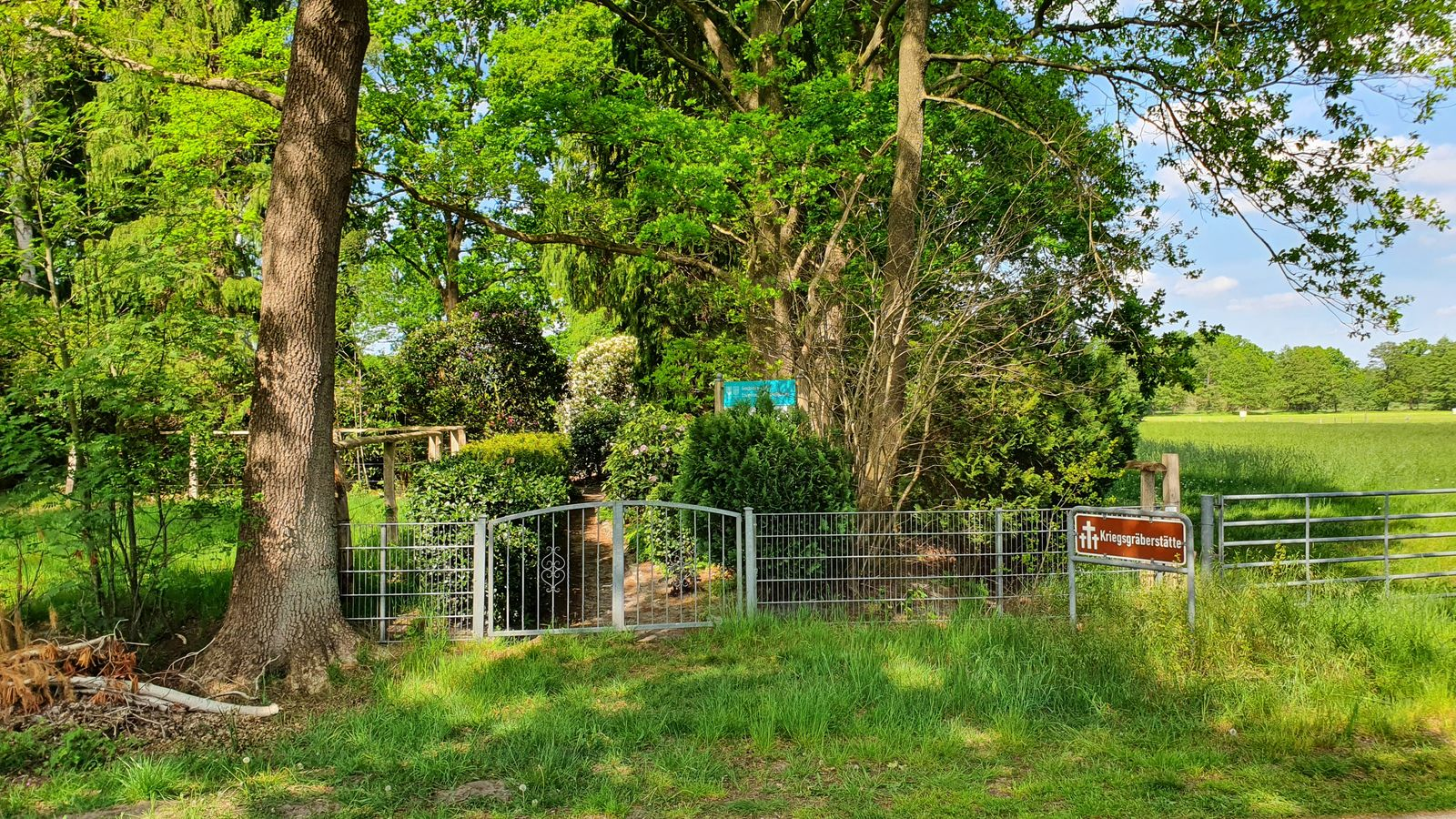 War victim memorial Königsmoor 001